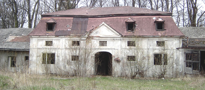 Husbandry buildings belonging to the manor house in Mošovce, Slovakia - torn down in 2005